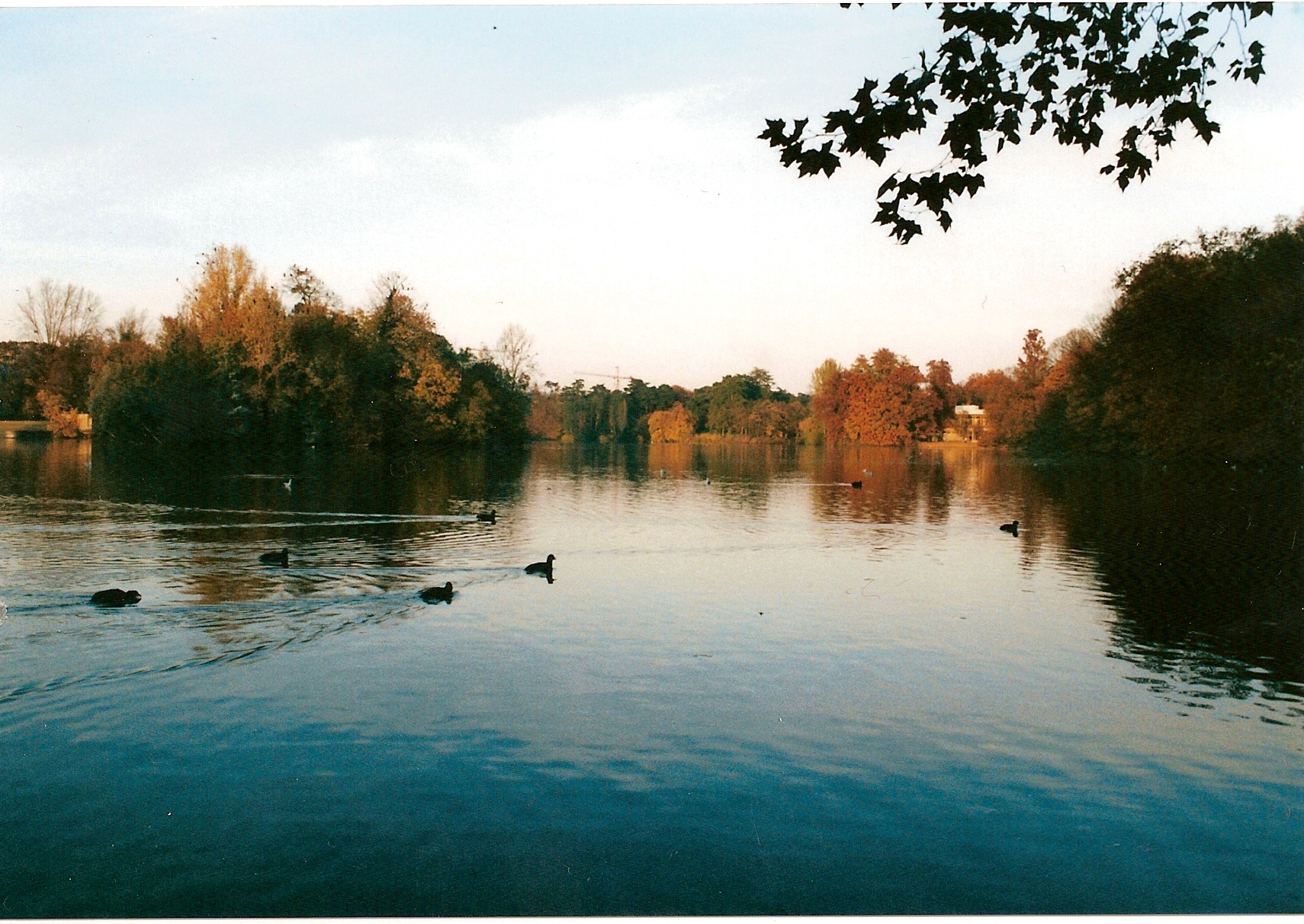 Lake of the Parc de la Tête d'Or in Lyon (France)